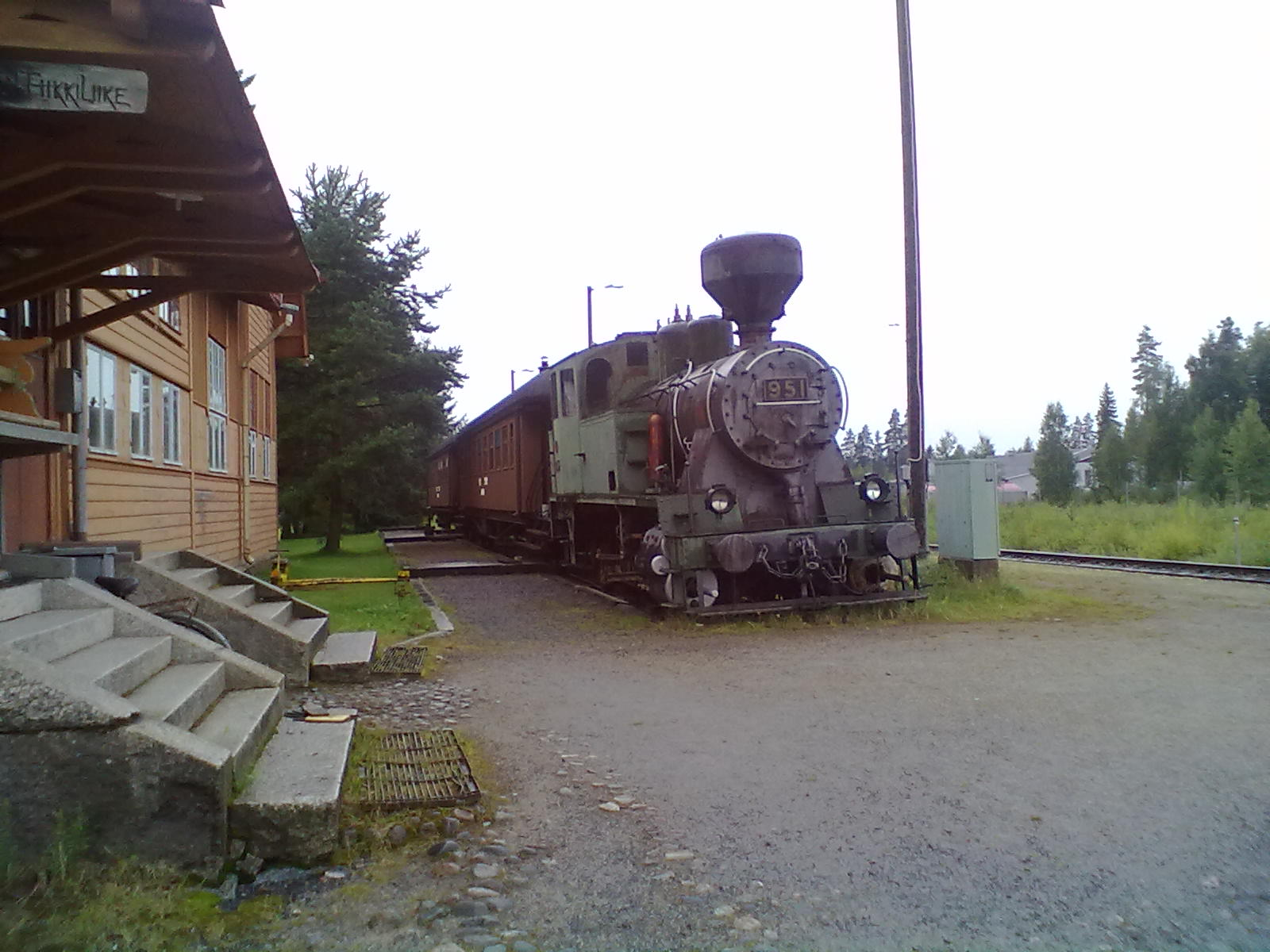 A motell built in old steamengine train in front of old railway station of Tuuri